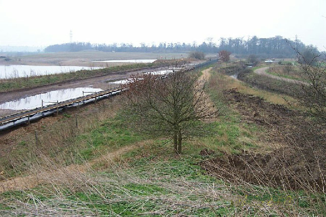 Tyttenhanger: Gravel pit workings. Flooded gravel pits to the left with a conveyor belt bringing material into a central batching plant from more distant active workings, the River Colne to the right, and Tyttenhanger Park beyond the trees in the distance, viewed looking southwards.